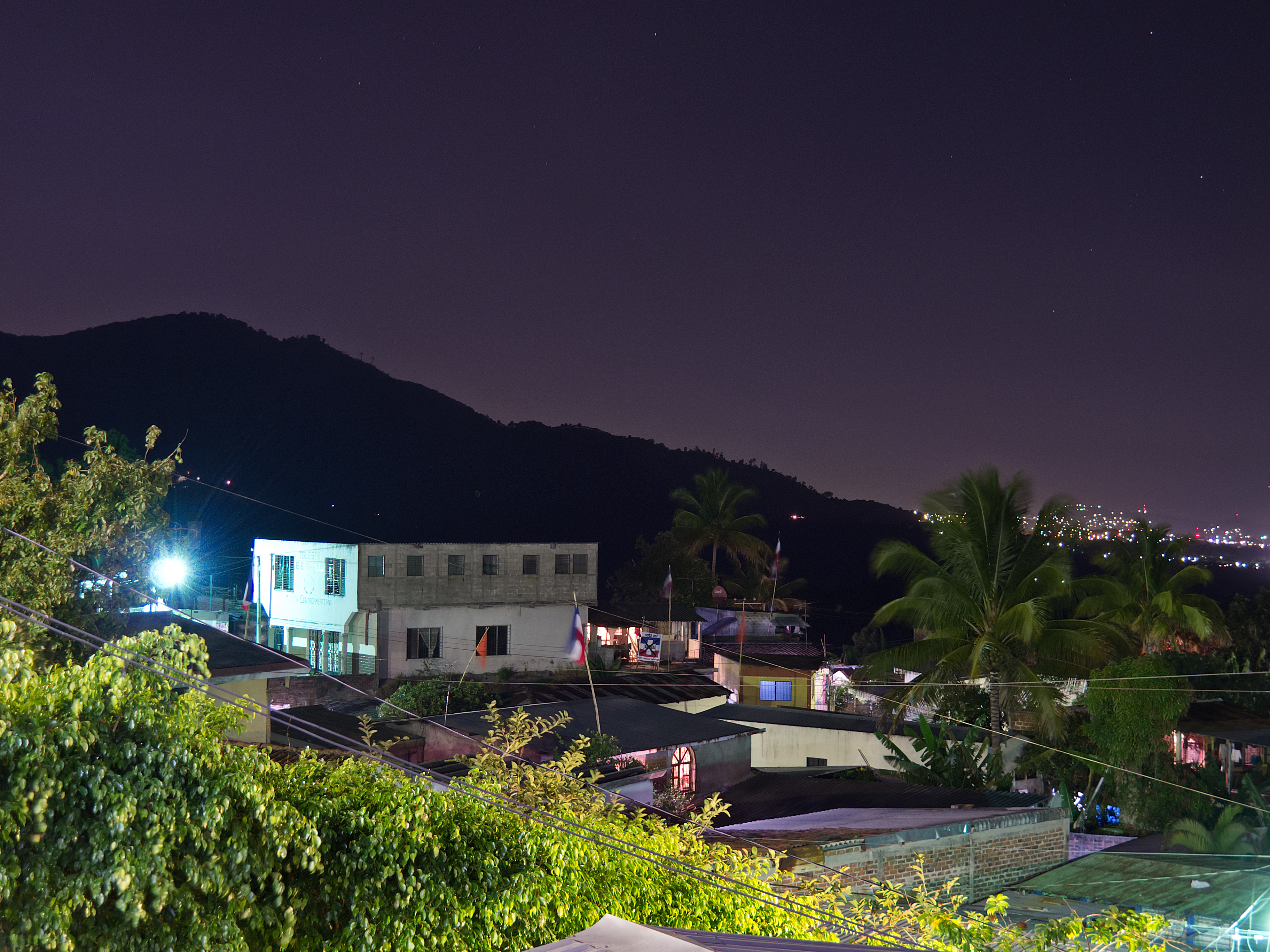 View of Santiago Texacuangos at night